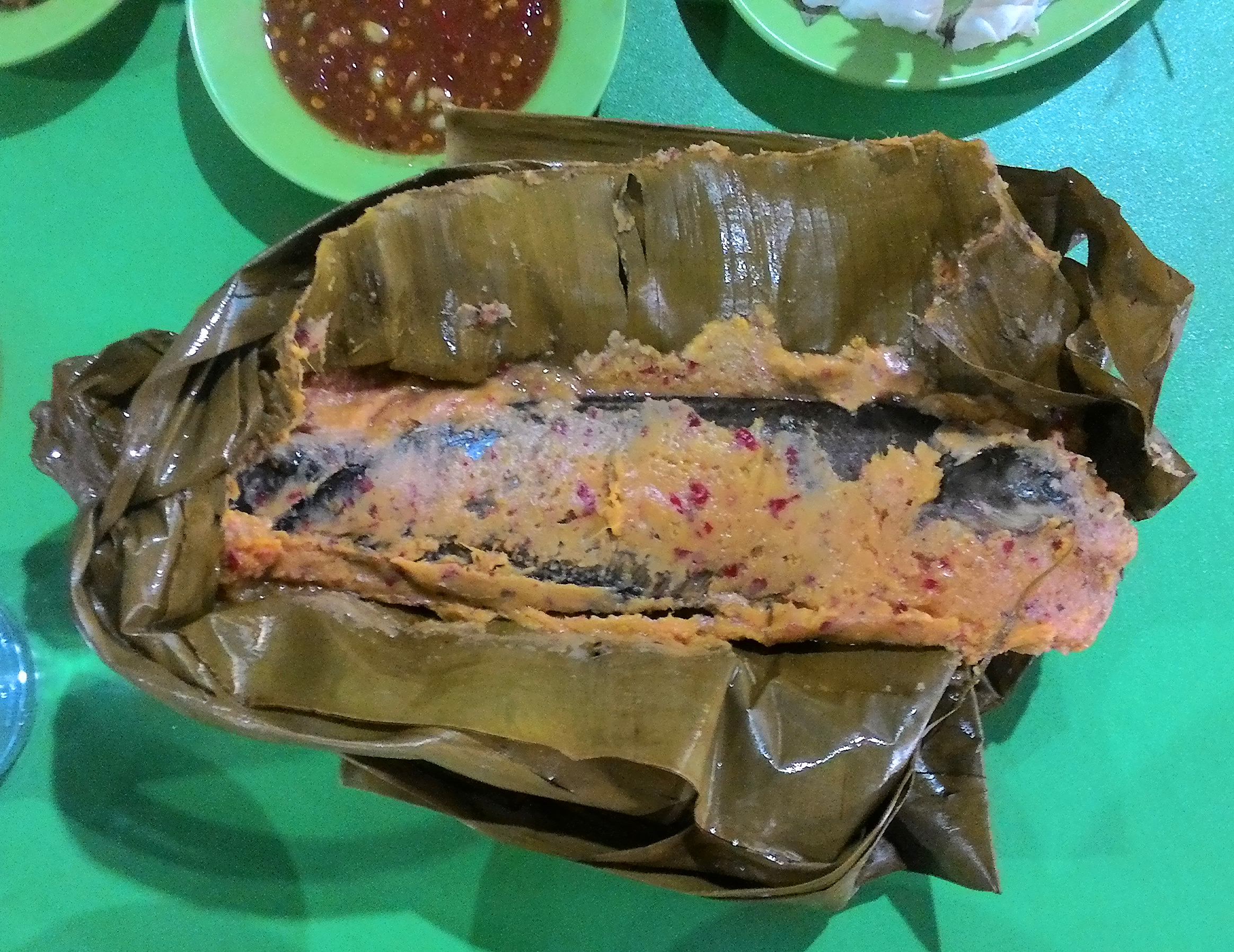 Brengkes Tempoyak iwak Lais served in Palembang. It is Kryptopterus cryptopterus freshwater fish seasoned with tempoyak fermented durian sauce, cooked inside banana package. Specialty of Palembang, South Sumatra, Indonesia.